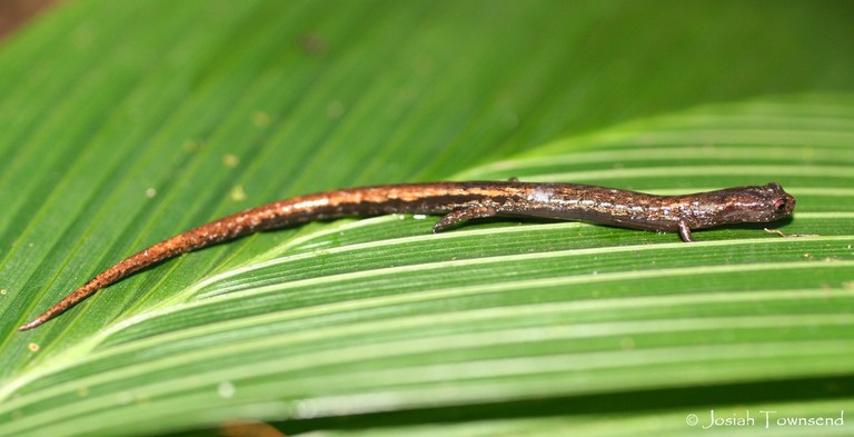 Nototriton limnospectator